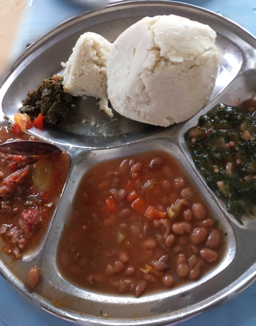 This is Ugali, the most common food in Tanzania and Africa, cooked with maize 🌽 flour. The vegetables used are beans, Mlenda, spinach and sardine This is an image with the theme "Play" from: Tanzania